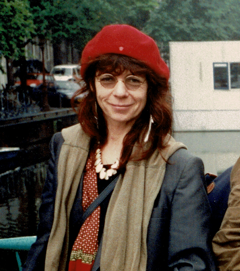 Sally Rodwell on tour with the show Crow Station in 1994 in Amsterdam. Photo taken during the day with a canal in the background. Cropped image.